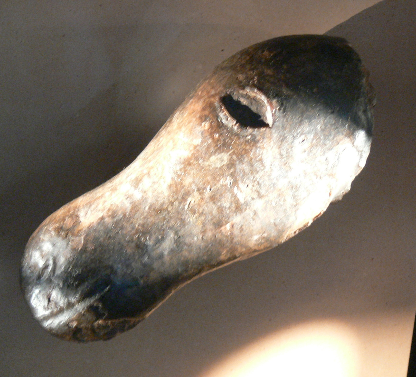 Celtic Museum Manching ( Bavaria ). Iron head of a horse sculpture.